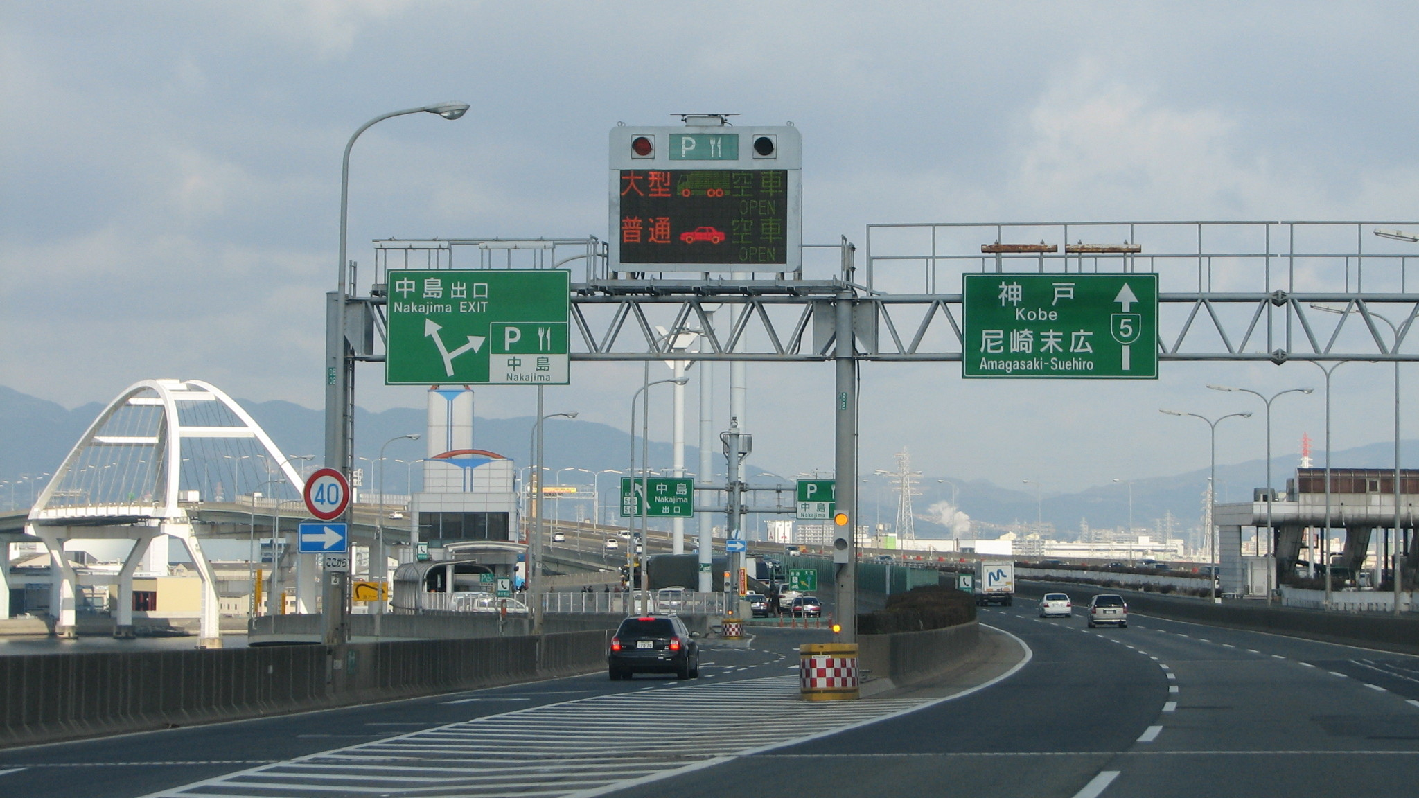 Hanshin Expressway Nakajima IC and PA